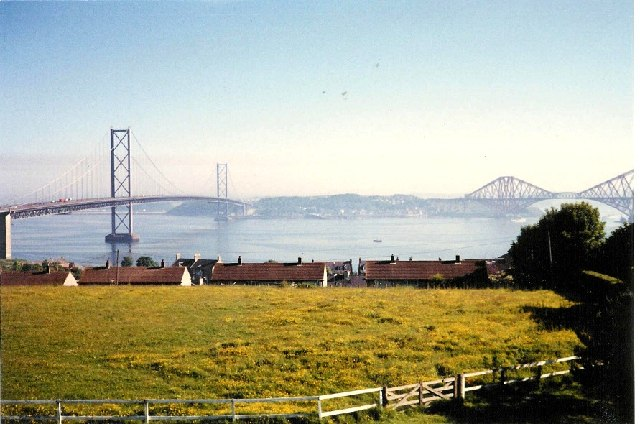 Bridges across the Firth of Forth at Queensferry. Ten miles west of Edinburgh, Queensferry has been an important crossing over the Firth of Forth since 1071 when Malcolm III granted free passage at the 'Queens Ferry' for pilgrims on their way to St Andrews. A townsman told me that the first bombs dropped on the United Kingdom in World War II were aimed at the bridge on the right of the picture.